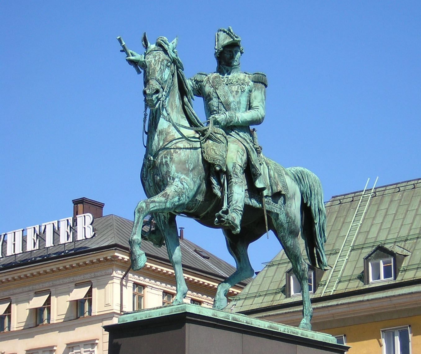 Statue of Charles XIV John (Karl XIV Johan) located at Slussplan, Stockholm. The statue was created by Bengt Erland Fogelberg (1786-1854).